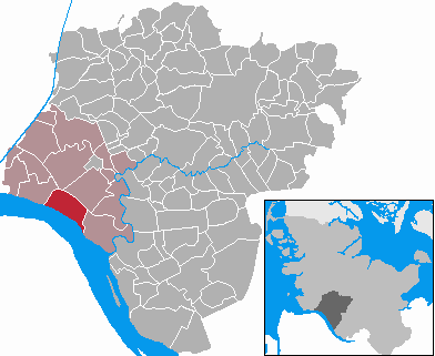 This map shows the area of the municipality Brokdorf in the Kreis (district) Steinburg, Schleswig-Holstein, Germany.